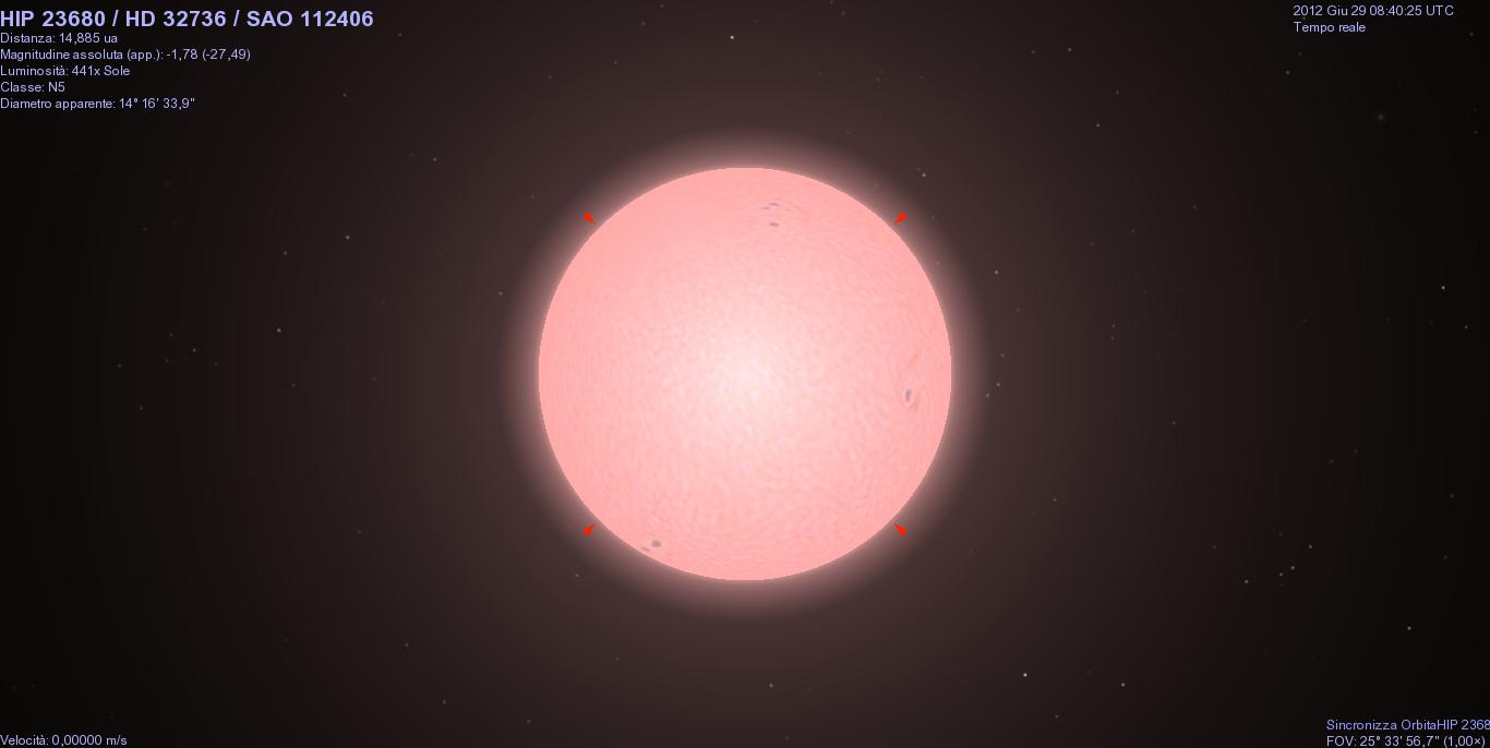 HD 32736 in Celestia